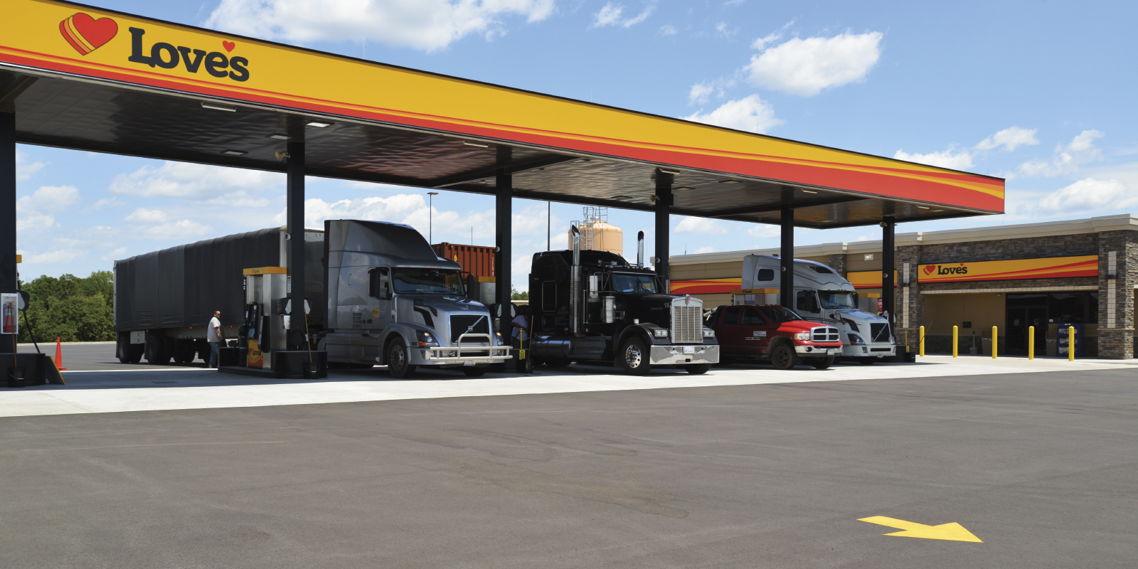 Trucks at a Love's